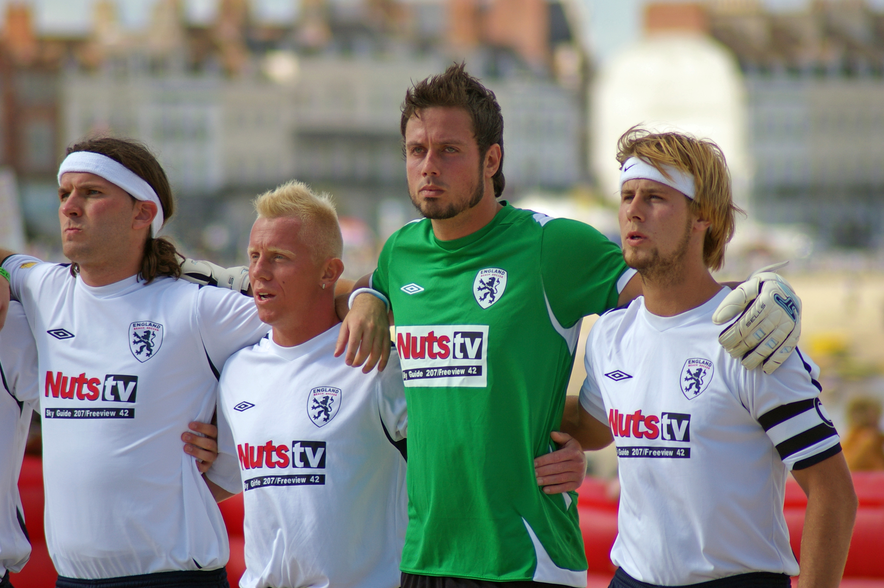 Selection of England beach football players